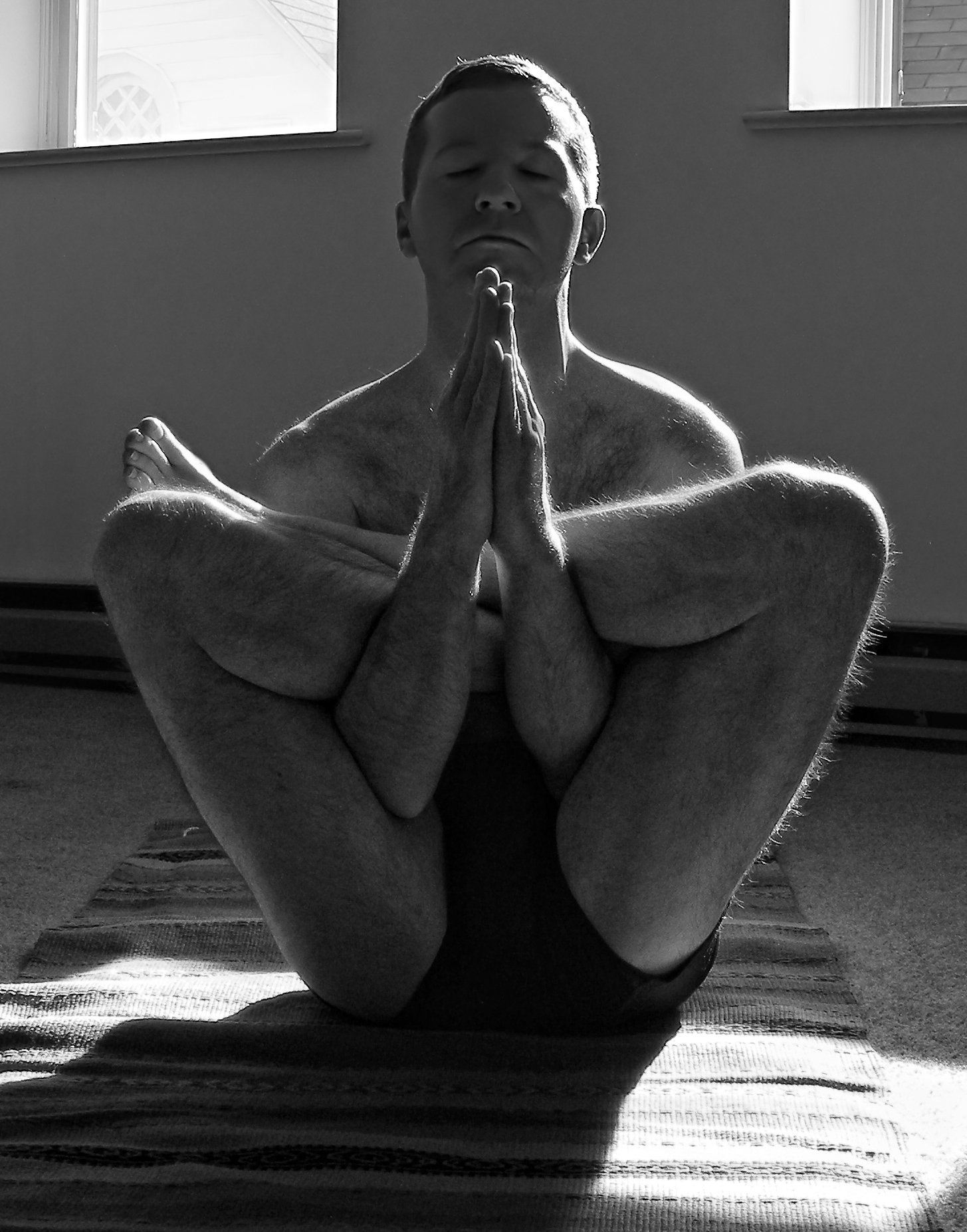 Variation of the embryo pose (garbha pindasana).